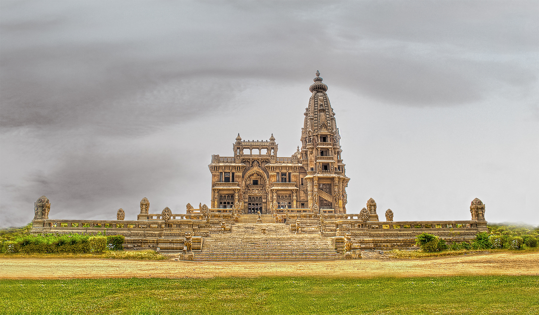 Baron Empain Palace with clear edited background